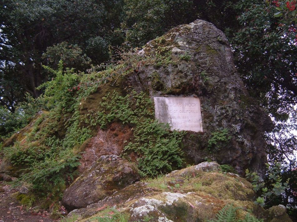 Founders Rock On the corner of Hearst Avenue and Gayley Road, in Berkeley, lies the Founders' Rock, the spot, according to college lore, where the 12 trustees of the future University of California, stood on April 16, 1860, to dedicate the property they had just purchased.